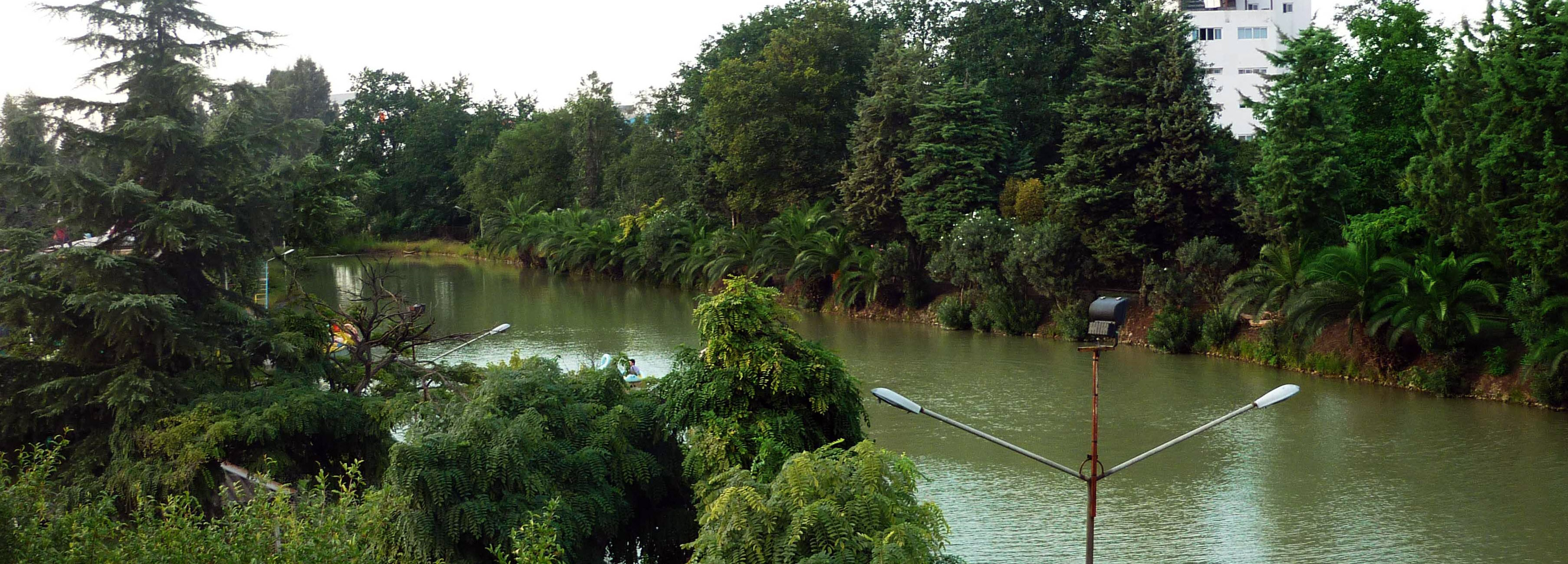 Lake of Golden Village Park in Amol city.